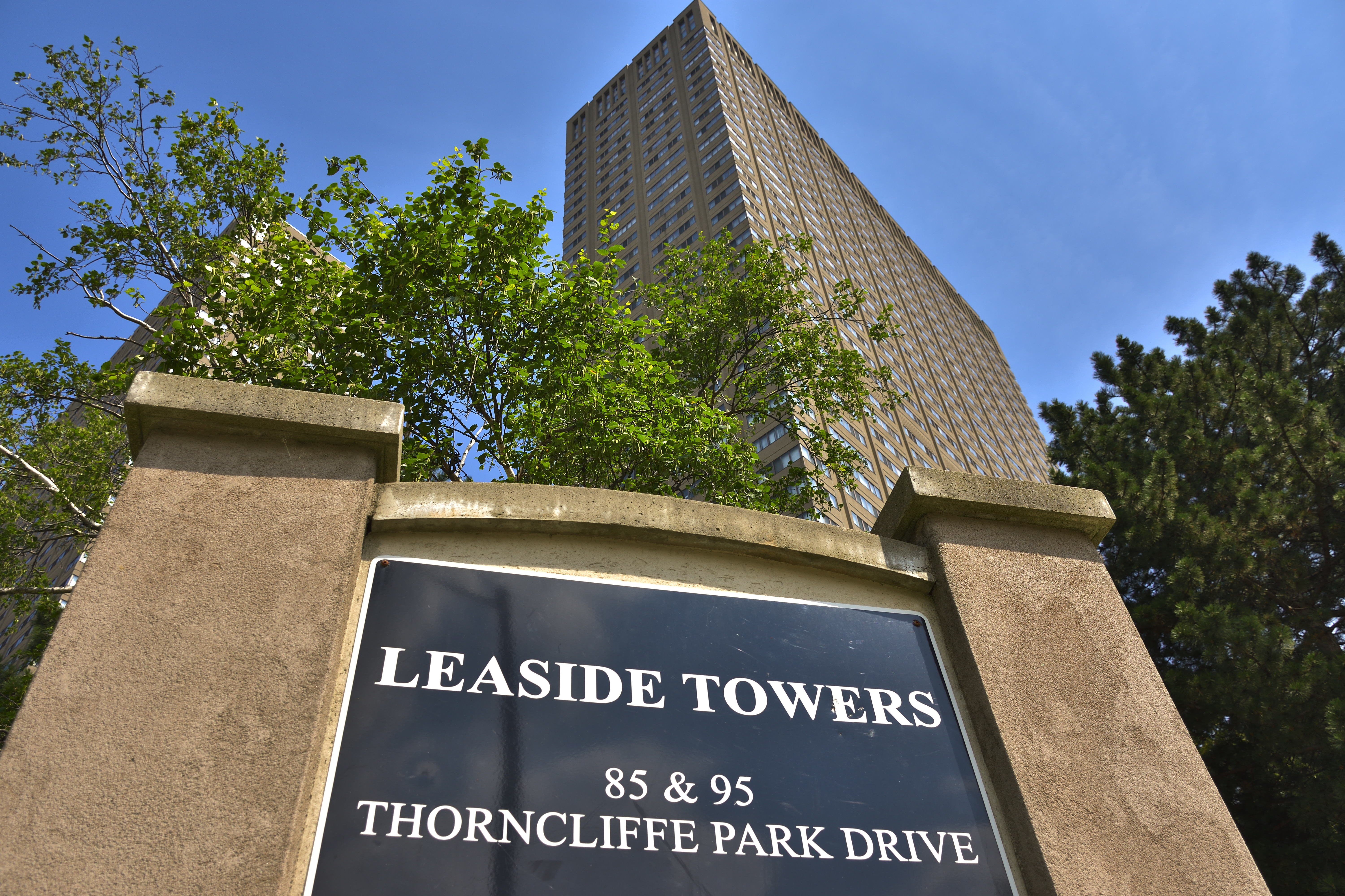 Erected in 1970, the Leaside Towers are the tallest residential apartment buildings in East York, and a prominent landmark of Thorncliffe Park's skyline.